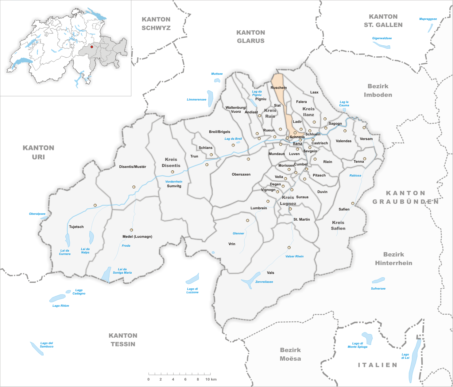 Municipality Ruschein